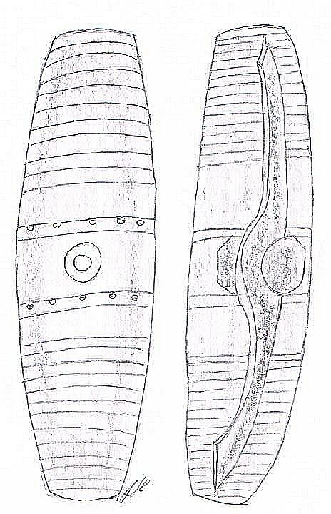 Tameng 2